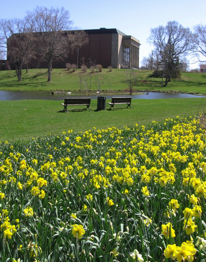 Convocation Hall, Mount Allison University, Sackville, NB, Canada.